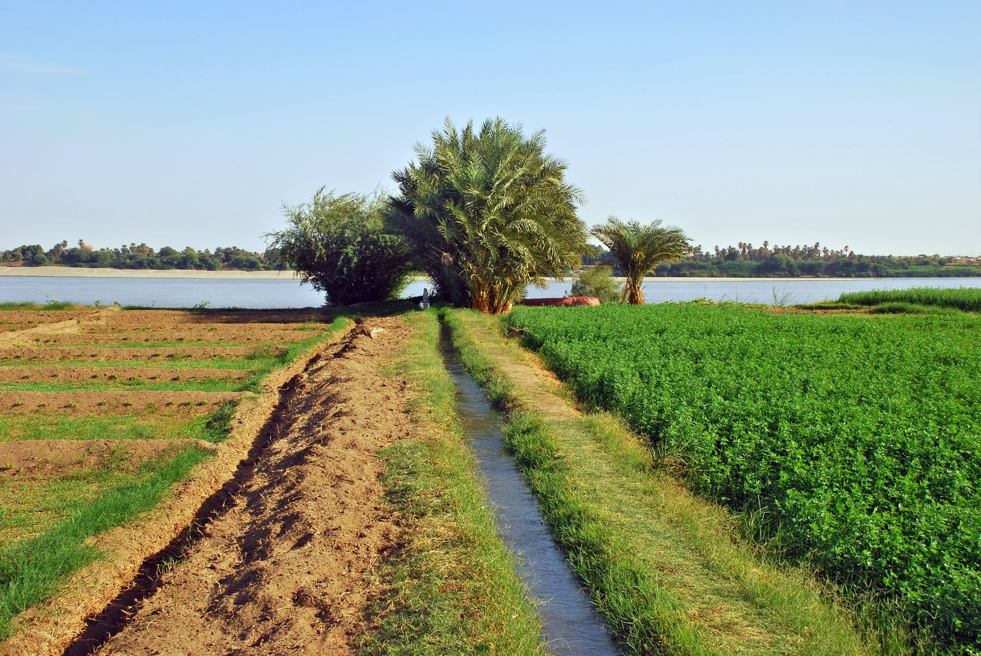 Nile near Karima, Sudan